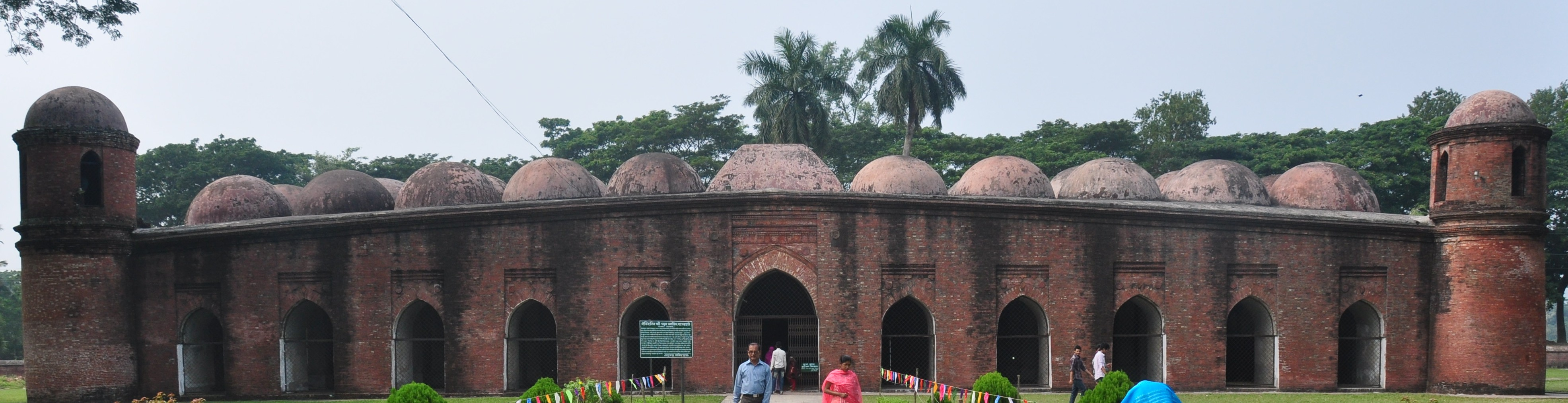 an old mosque in Bangladesh